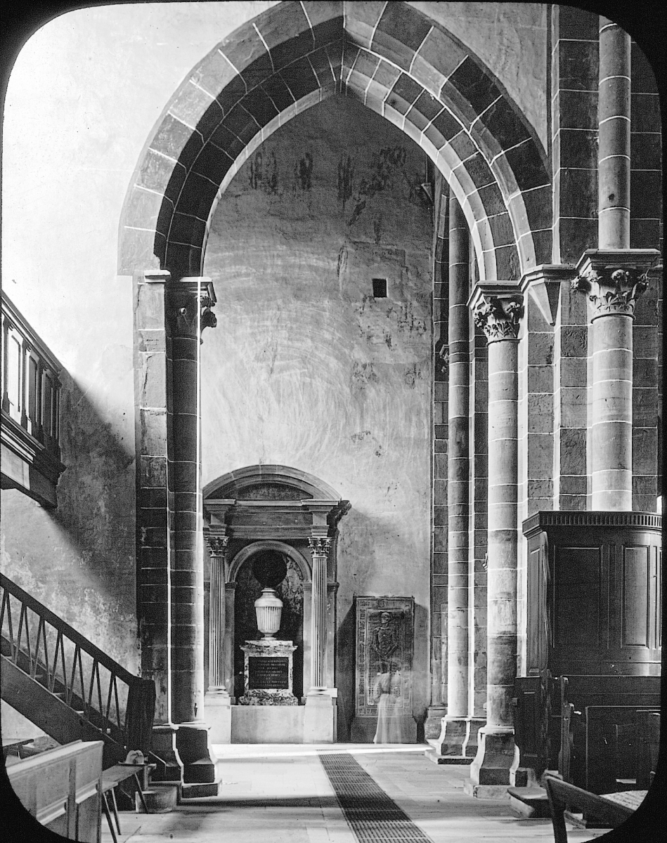 Thomas-kirche, Strasbourg, France, 1903. Thomas-kirche. Strassburg left aisle widening shown by plumb line; Series 1903. Brooklyn Museum Archives, Goodyear Archival Collection (S03_06_01_003 image 1643). Help us map this image by using Suggestify to suggest a location for it.